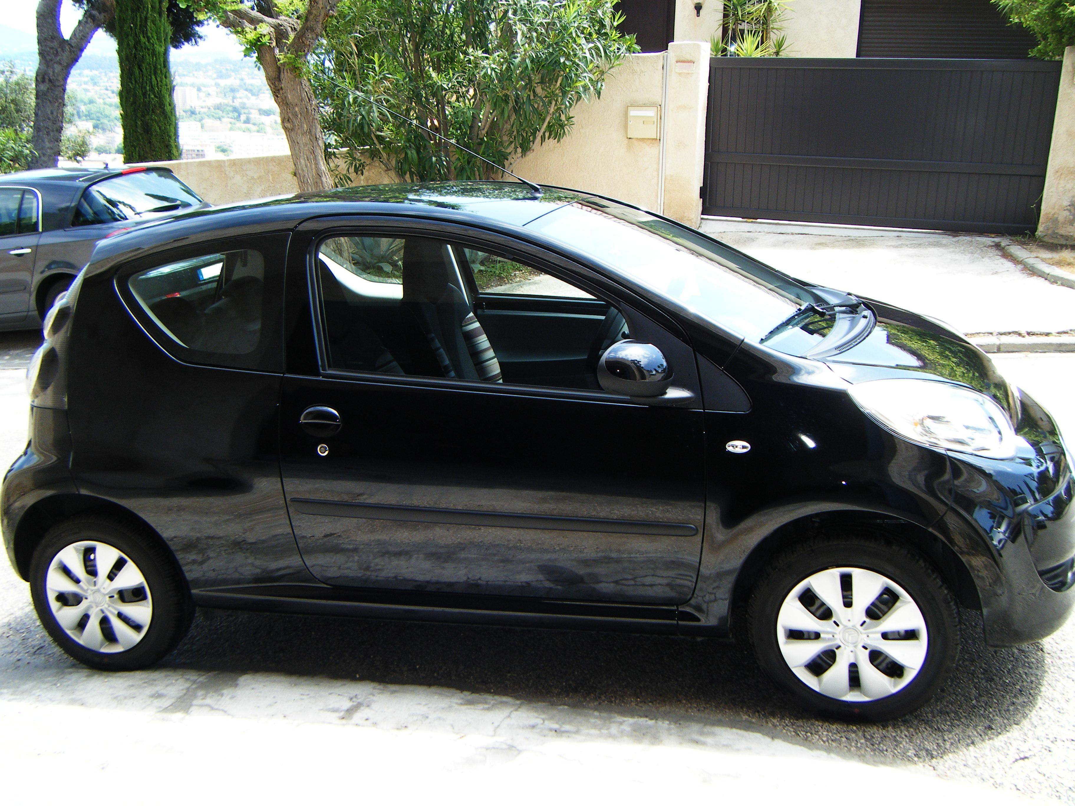 C1 car